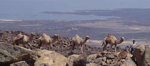 Djibouti. Image taken by Charles Fred on flickr. The creator has granted GFDL licensing and permission for use in the wikimedia project.